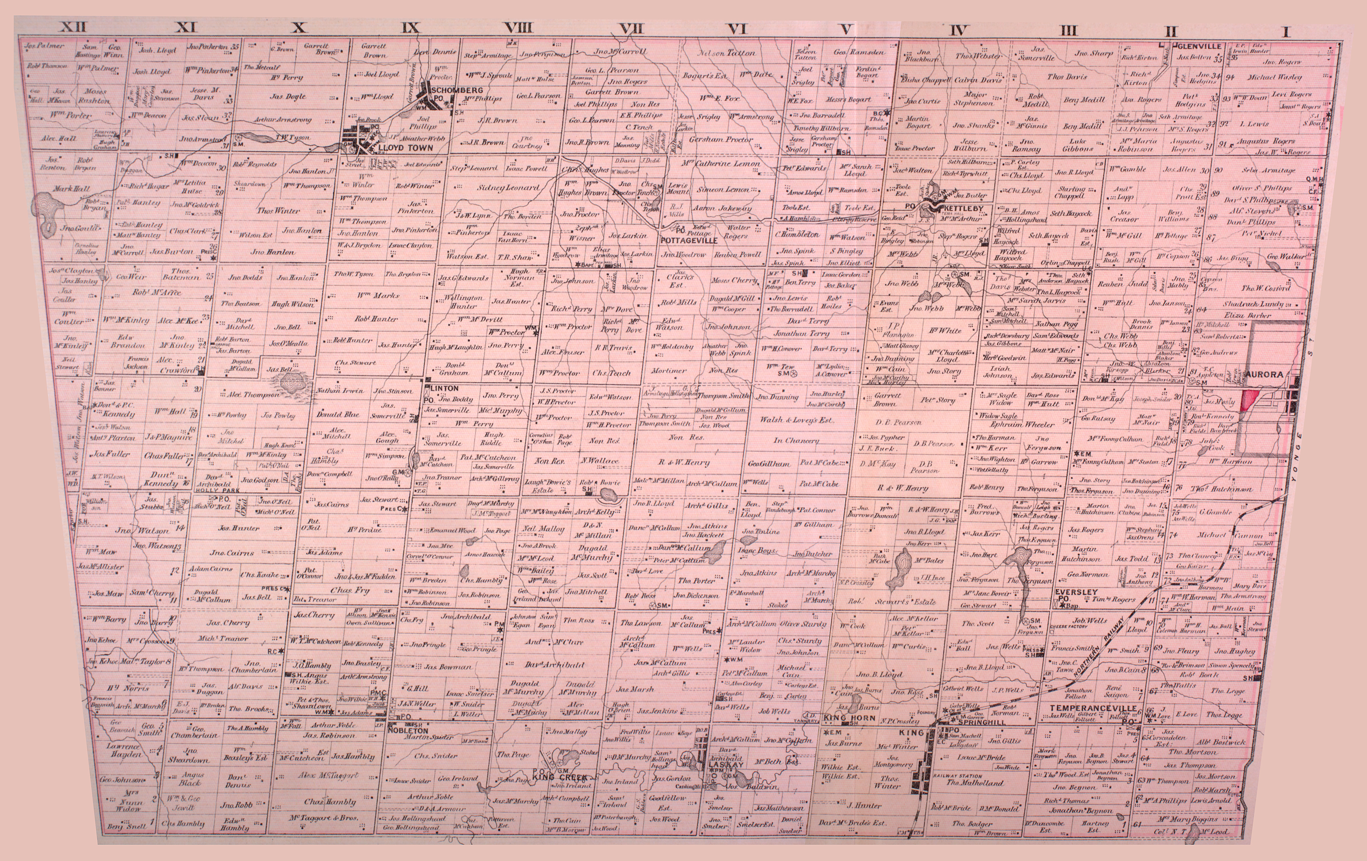 Map of Township of King (South), Ontario, part of York County, from 1878. Noted on the map are schoolhouses (SH), post offices (P.O.), Roman Catholic churches (R.C.), Baptist churches (Bap.), Presbyterian churches (PRES or PRESB), and other features. The map shows the boundaries for the township extending to Yonge Street; these lands, represented as lots 61-95, have since been ceded to the towns of Richmond Hill (southern portion), Aurora (central portion) and Newmarket (northern portion, most of which is not shown).